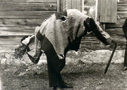 Meteņi ķekatnieks "crane", Vaide, 1928.